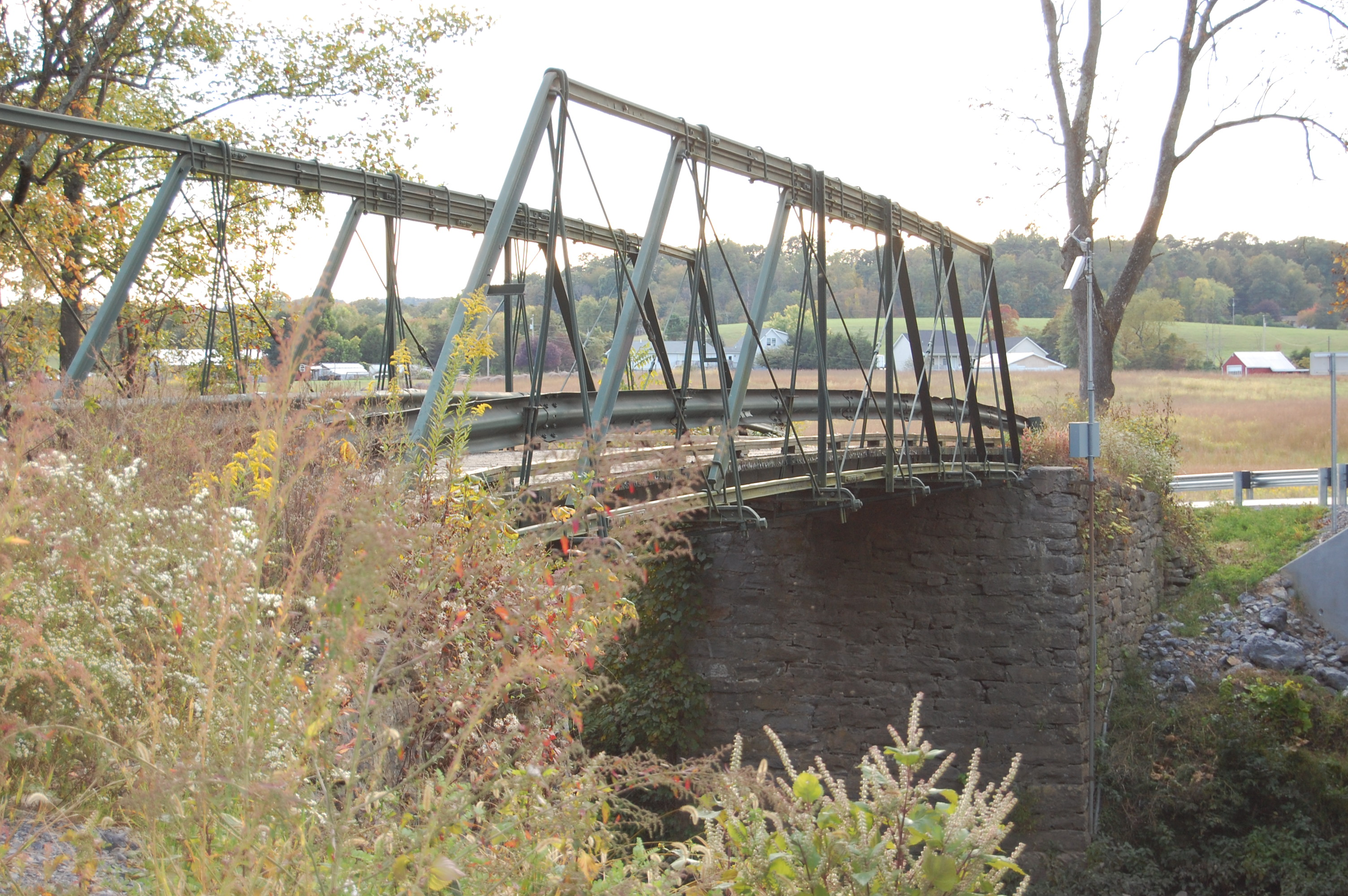 Parks